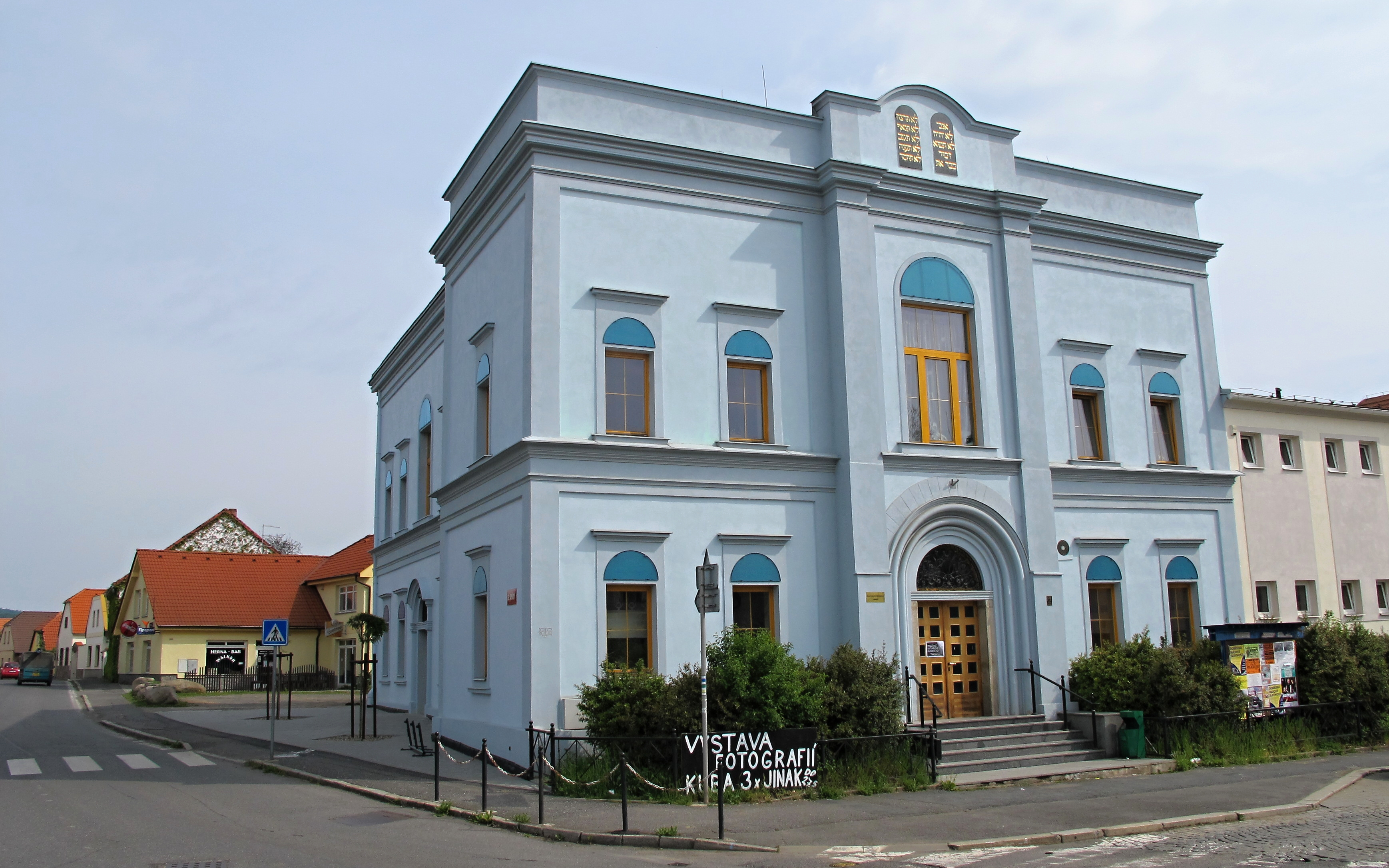 Cultural center (and former synagogue) on square in Dobříš, Příbram District